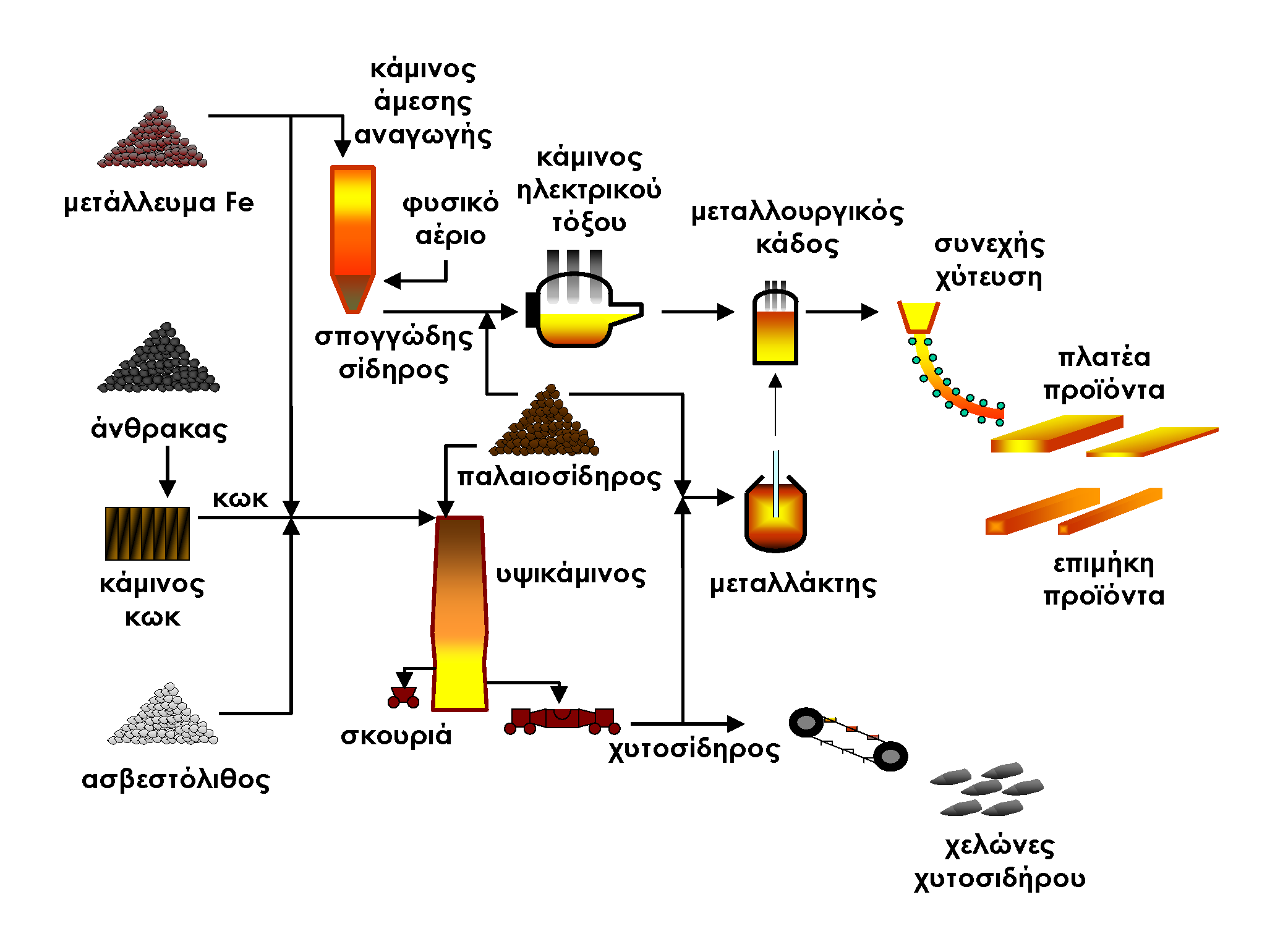 Steel production diagramm